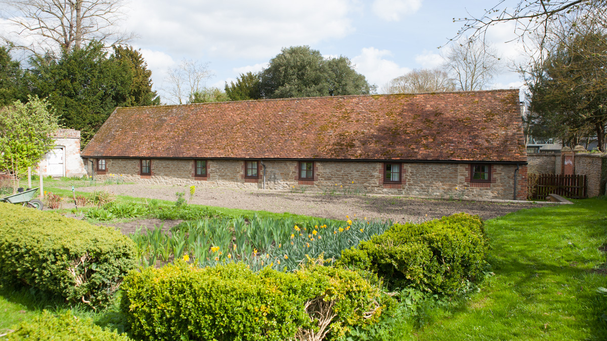 The Abbey, Sutton Courtenay, Oxforshire, England